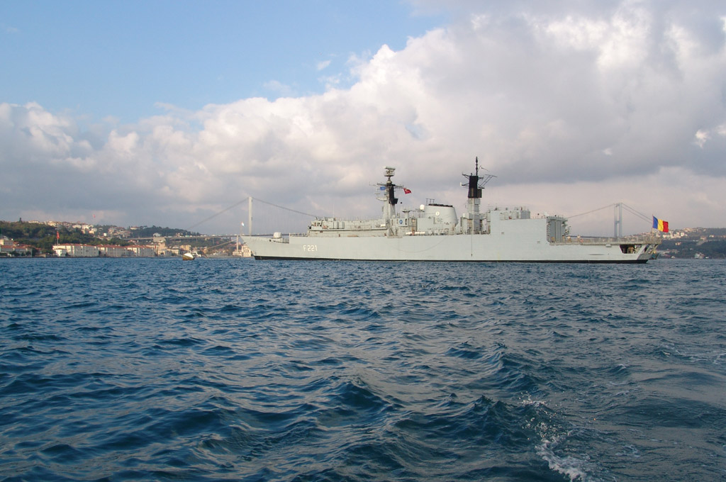 Regele Ferdinand (F-221) in Istambul harbour during Active Endeavour exercise.